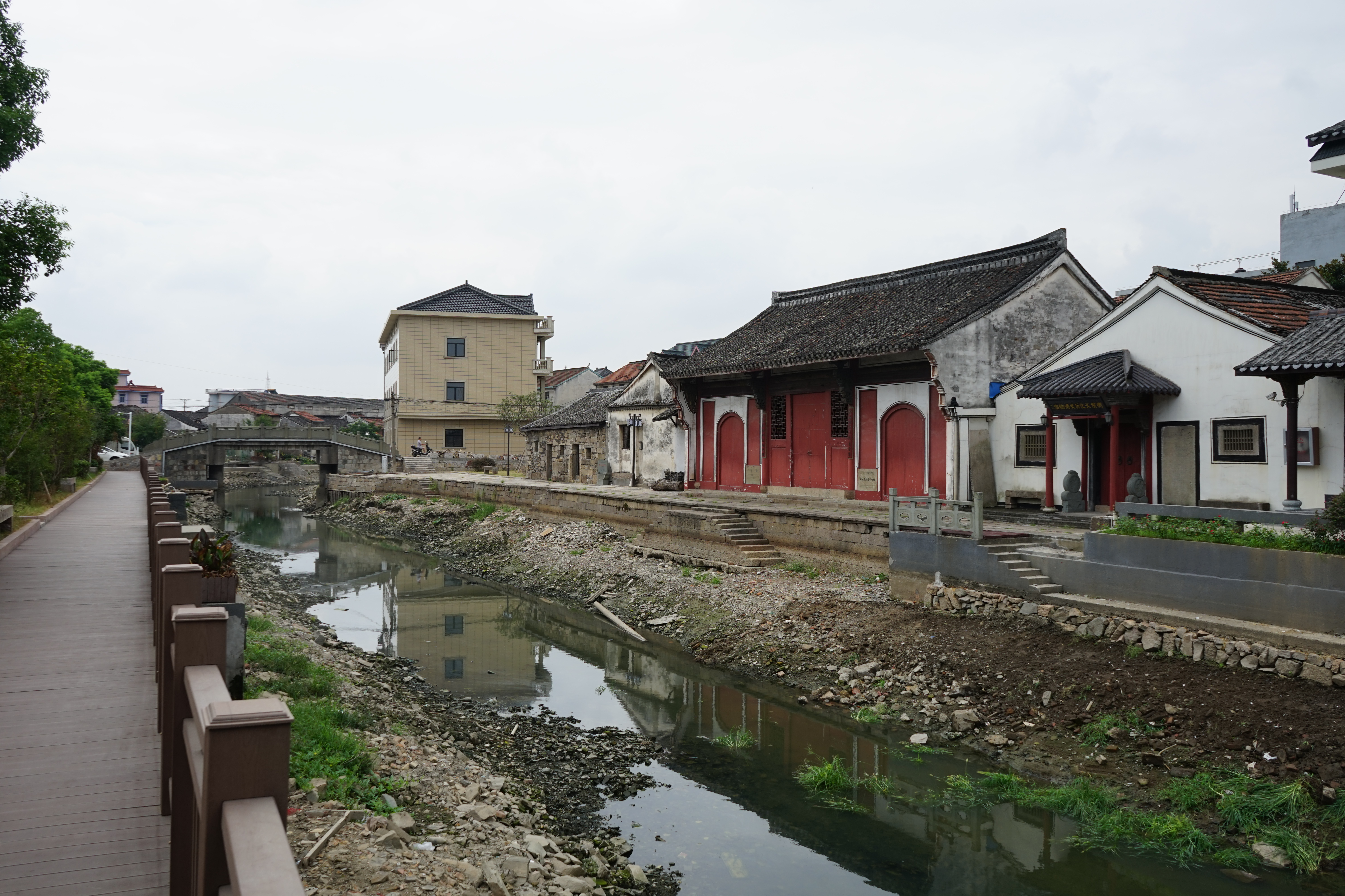 Xiaoshao Canal and nearby buildings